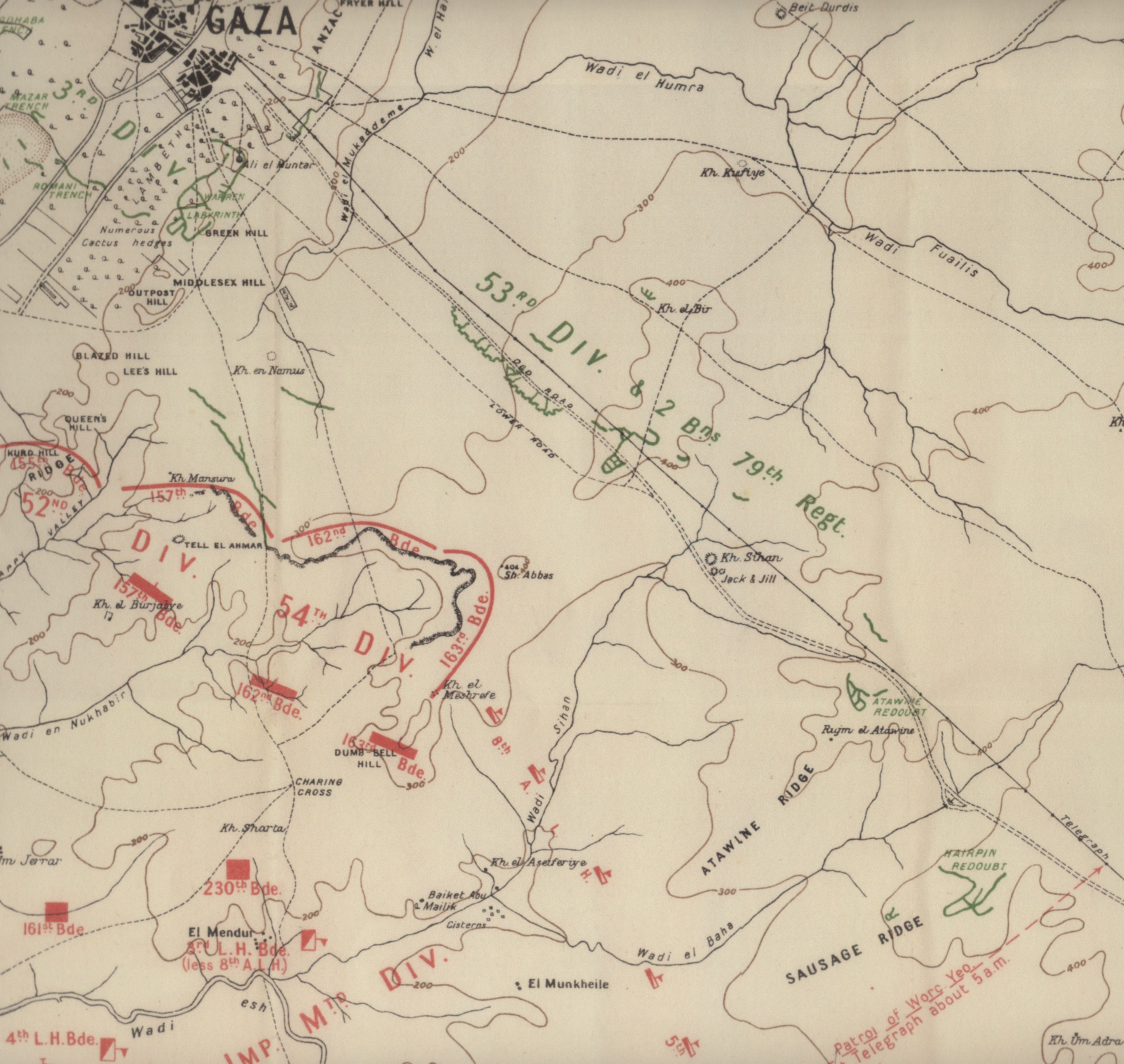 Falls Map 14 Second Battle of Gaza 17 April 1917 Other information Crown copyright